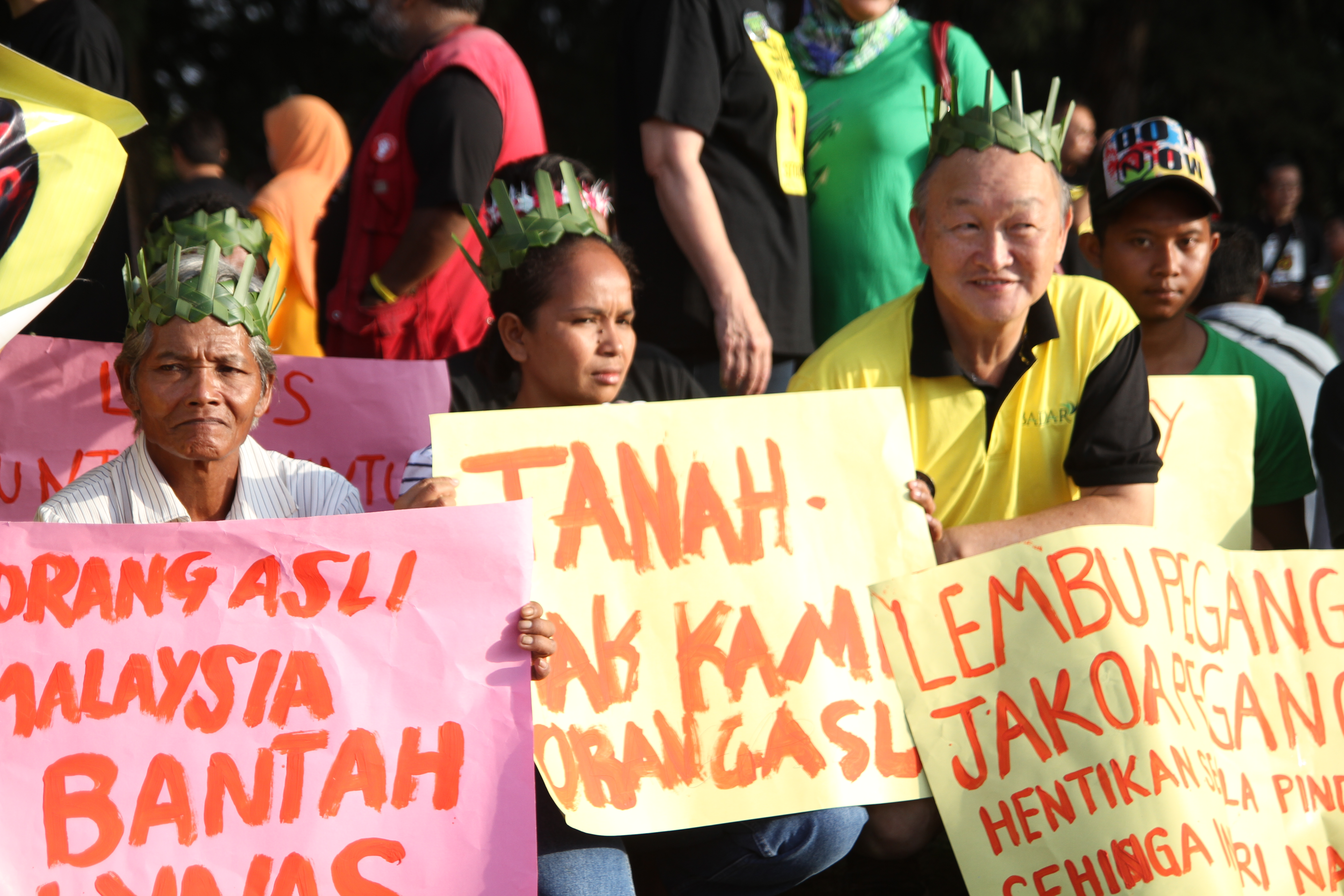 Protesting against Lynas. Although one of these guys not aboriginal. Siew Fook Chan (yellow shirt) is a Chinese Malaysian guy but a true champion of ALL Malaysians irrespective of race.